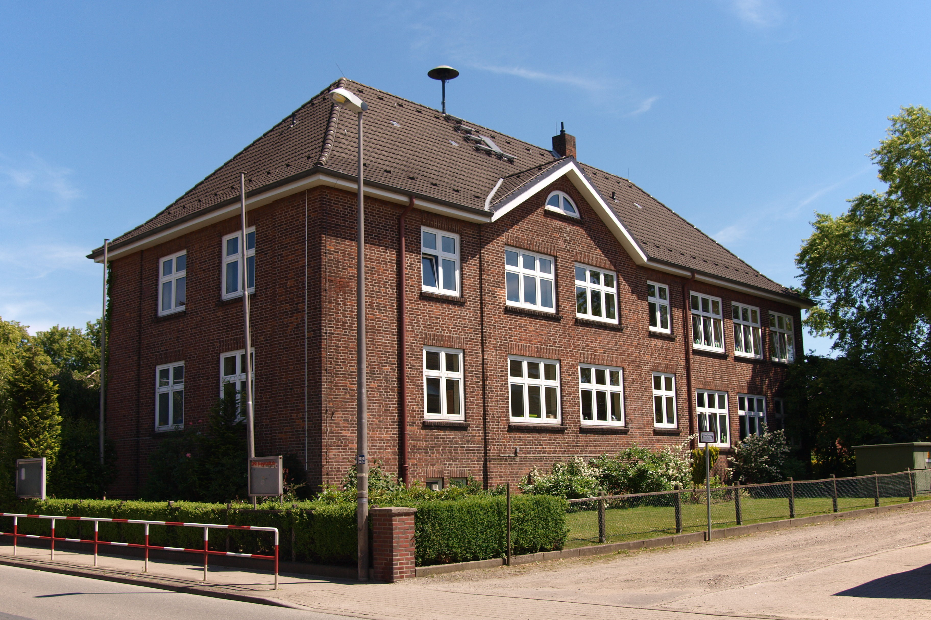 Elementary School Tangstedt, Dorfstraße 100, Tangstedt (Kreis Pinneberg), Schleswig-Holstein, Germany. Cultural heritiage monument.